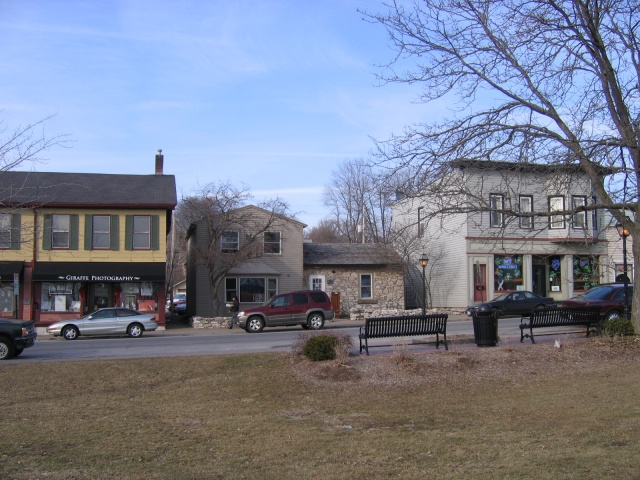 Picture from Riverview Terrace park in Davenport, Iowa.